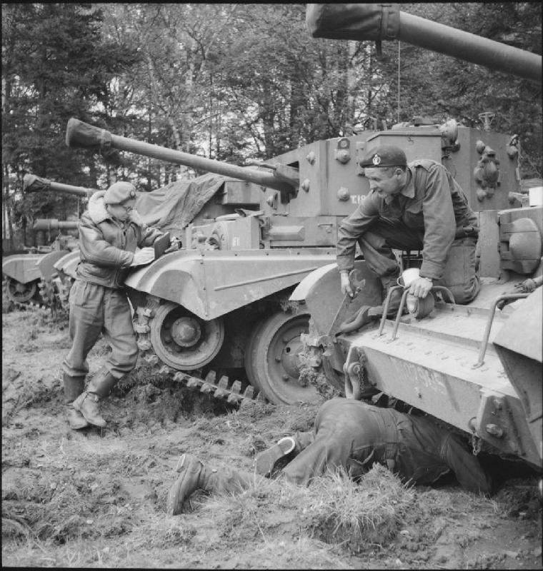 The British Army in North-west Europe 1944-45 The Express cartoonist Giles sketches as Cromwell tank crewmen work on their vehicles, 1 May 1945.